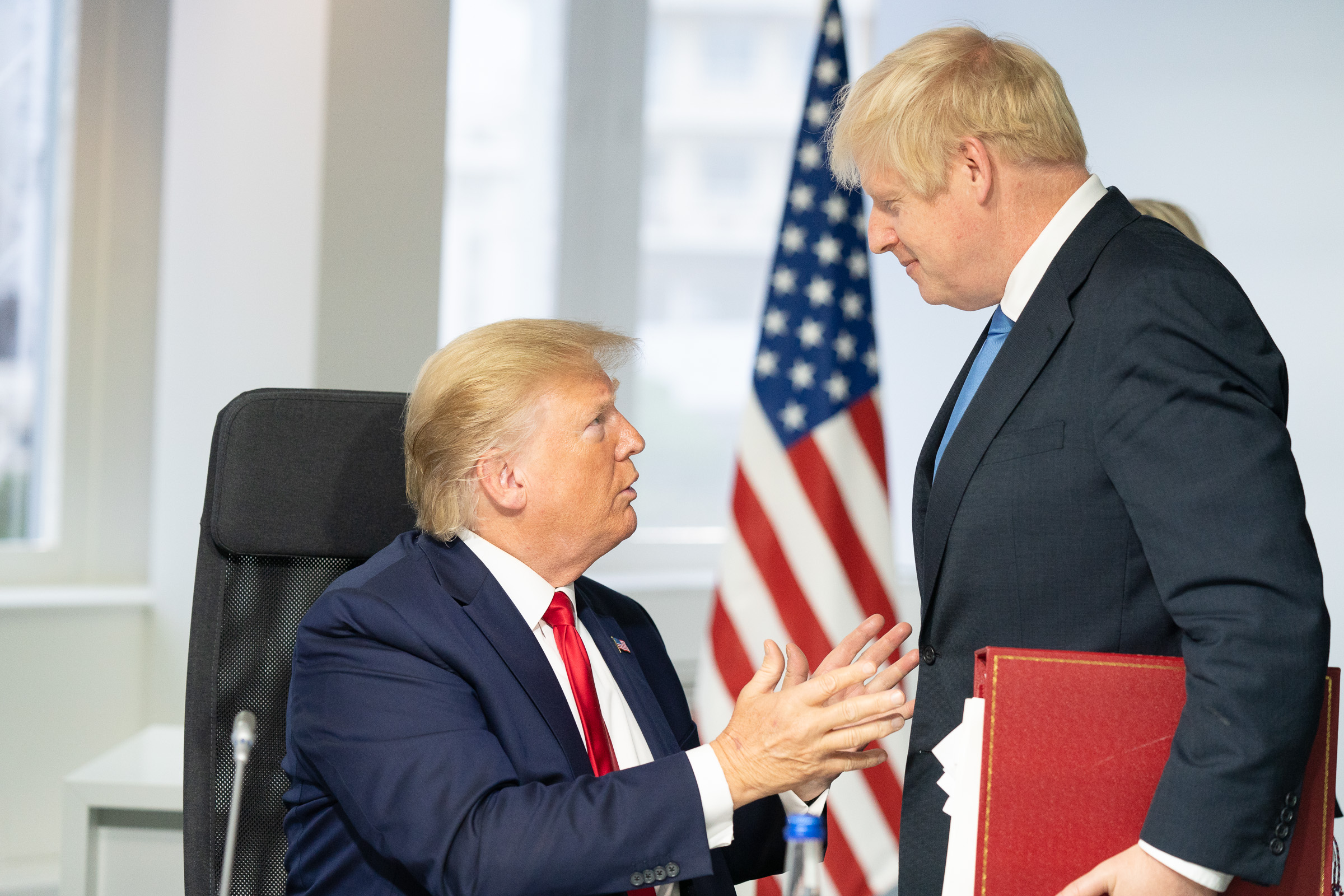 President Donald J. Trump, joined by G7 Leaders, attends the G7 Closing Session at the Centre de Congrés Bellevue Monday, Aug. 26, 2019, in Biarritz, France, site of the G7 Summit. (Official White House Photo by Shealah Craighead)